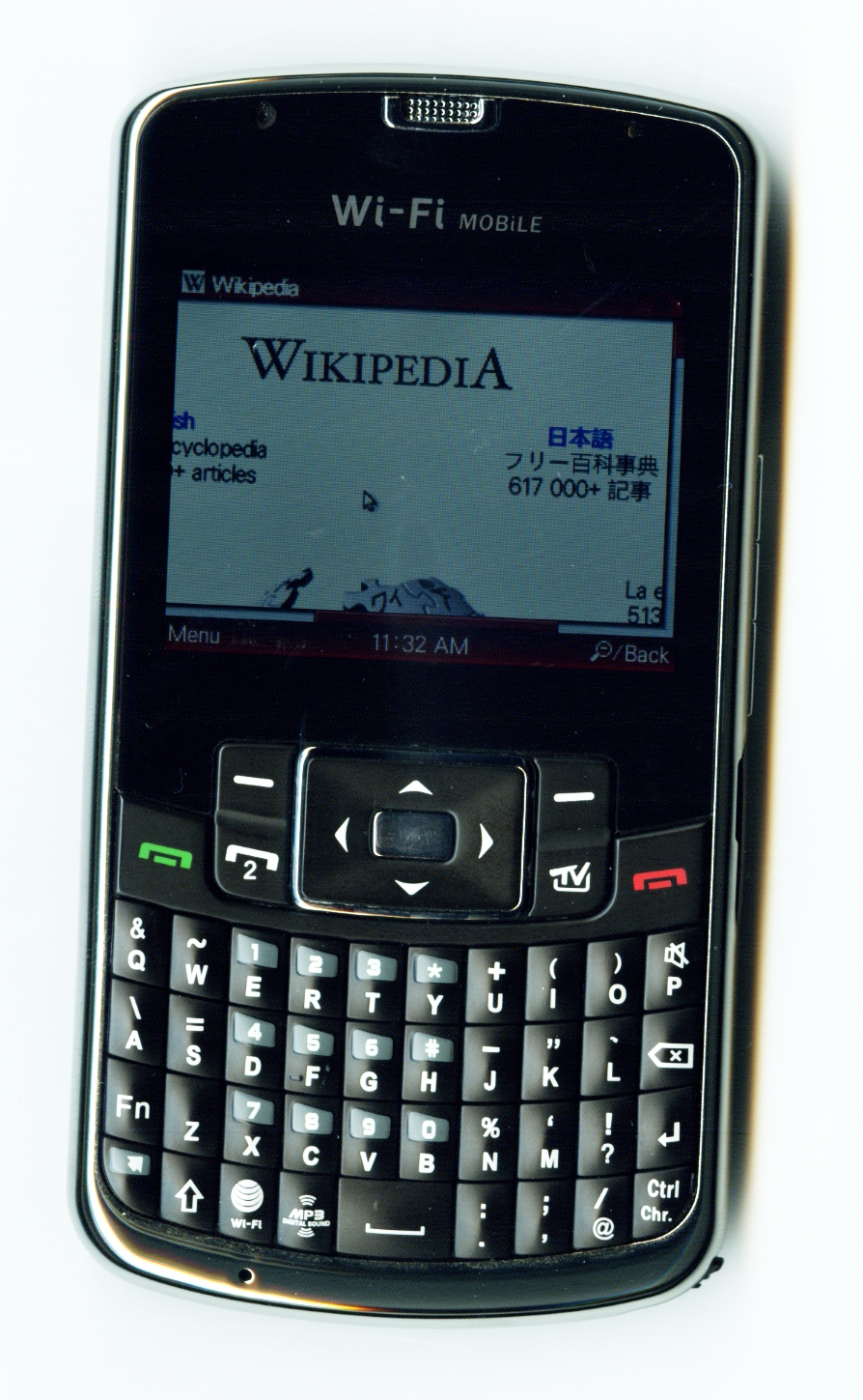 This is a 300dpi scan of a Star C6000 Chinese mobile phone. It uses the MT6235 platform.